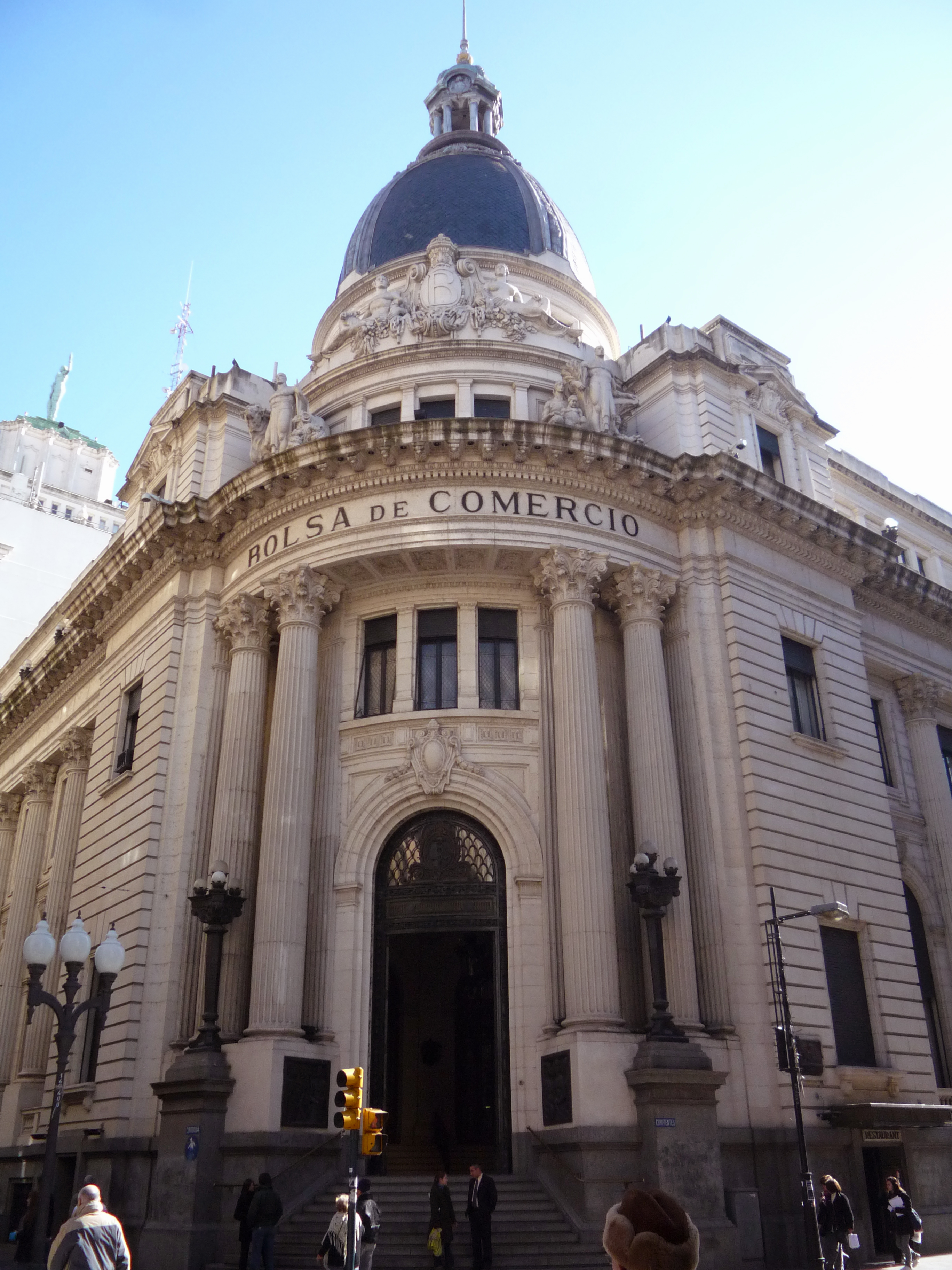 Stock Exchange (Bolsa de Comercio) in Rosario, Argentina